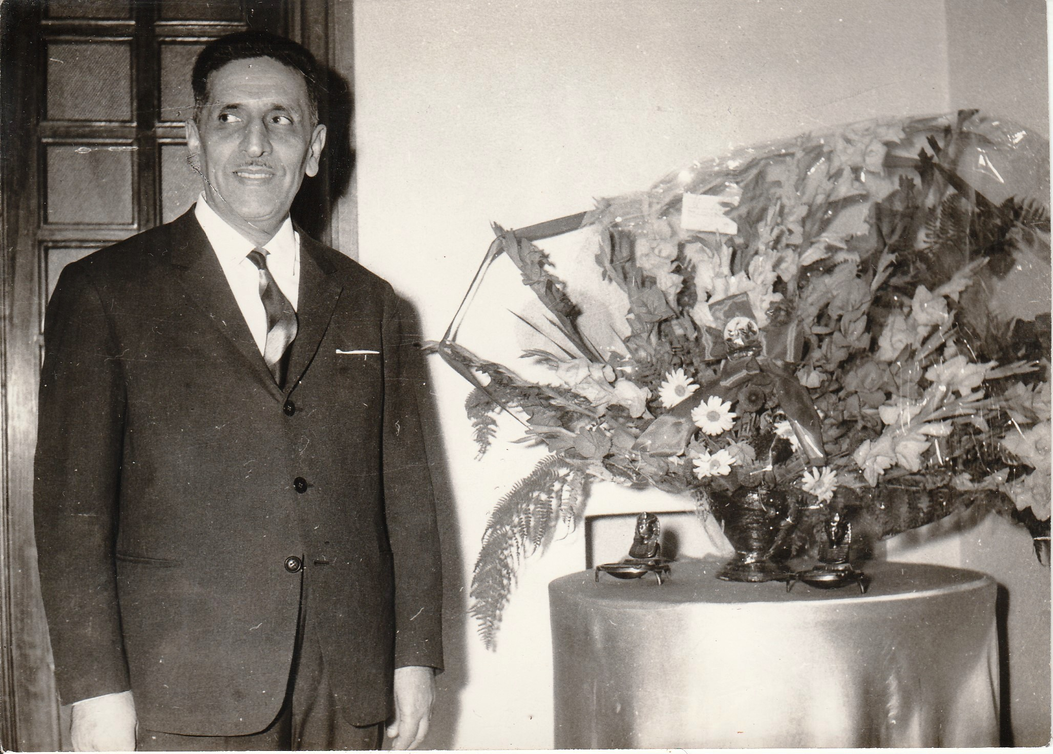 Iraqi diplomat Hakki Al Mufti in the House of charge d'Affaires at the Iraqi Embassy in Damascus in Syria 1966